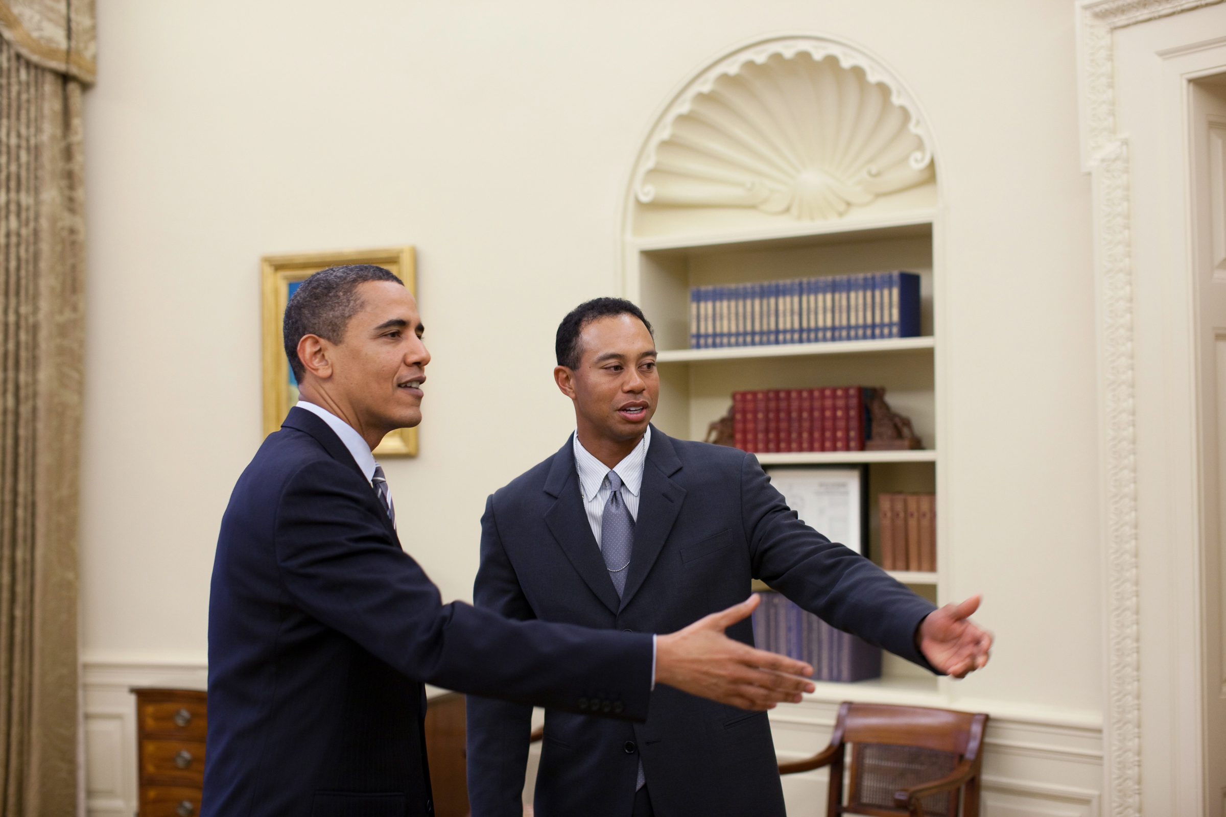 President Barack Obama greets professional golfer Tiger Woods in the Oval Office Monday, April 20, 2009. The 14-time major winner visited the White House Monday following a press conference for the AT&T National, the PGA Tour event Woods hosts at Congressional Country Club June 29-July 5.